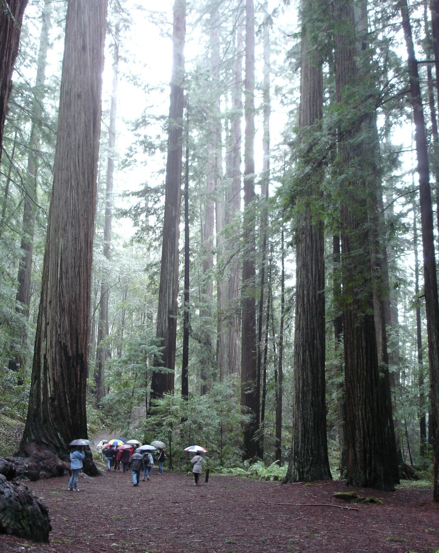 Redwood grove at Montgomery Woods State Reserve (Uploaded by author User:PeterThoeny)